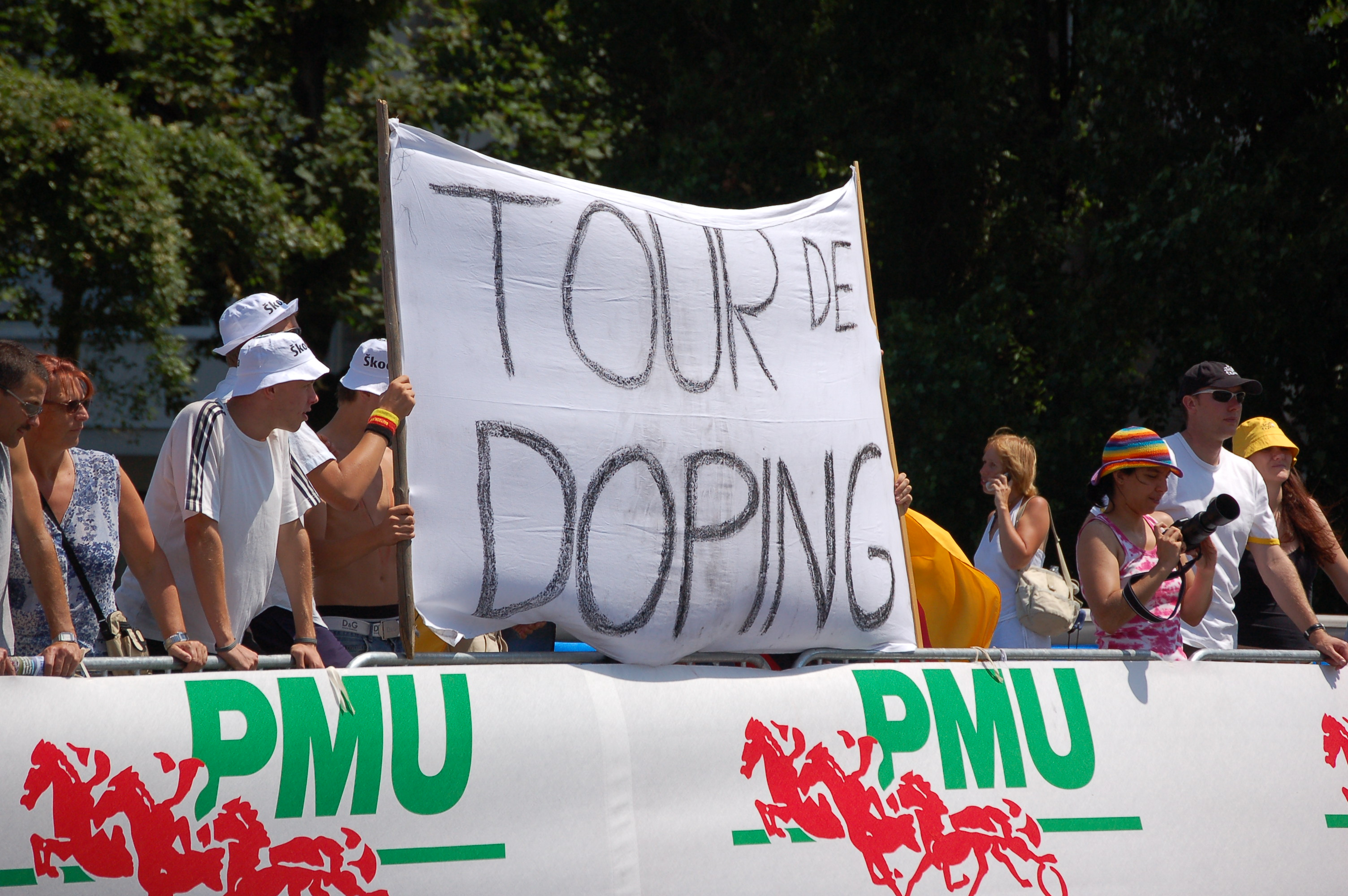 Protest banner against doping at Tour de France 2006